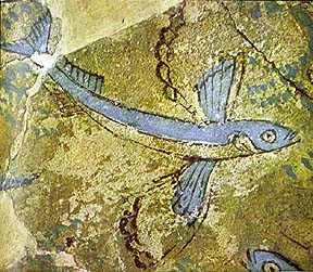 fresco of a flying fish from the bronze age excavation of Phylakopi on the greek island Milos.